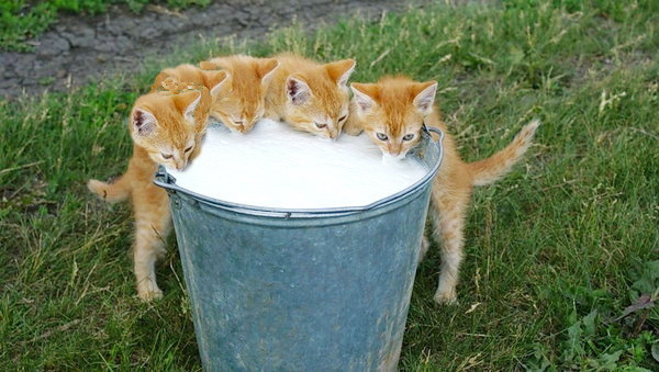 Five thirsty kittens